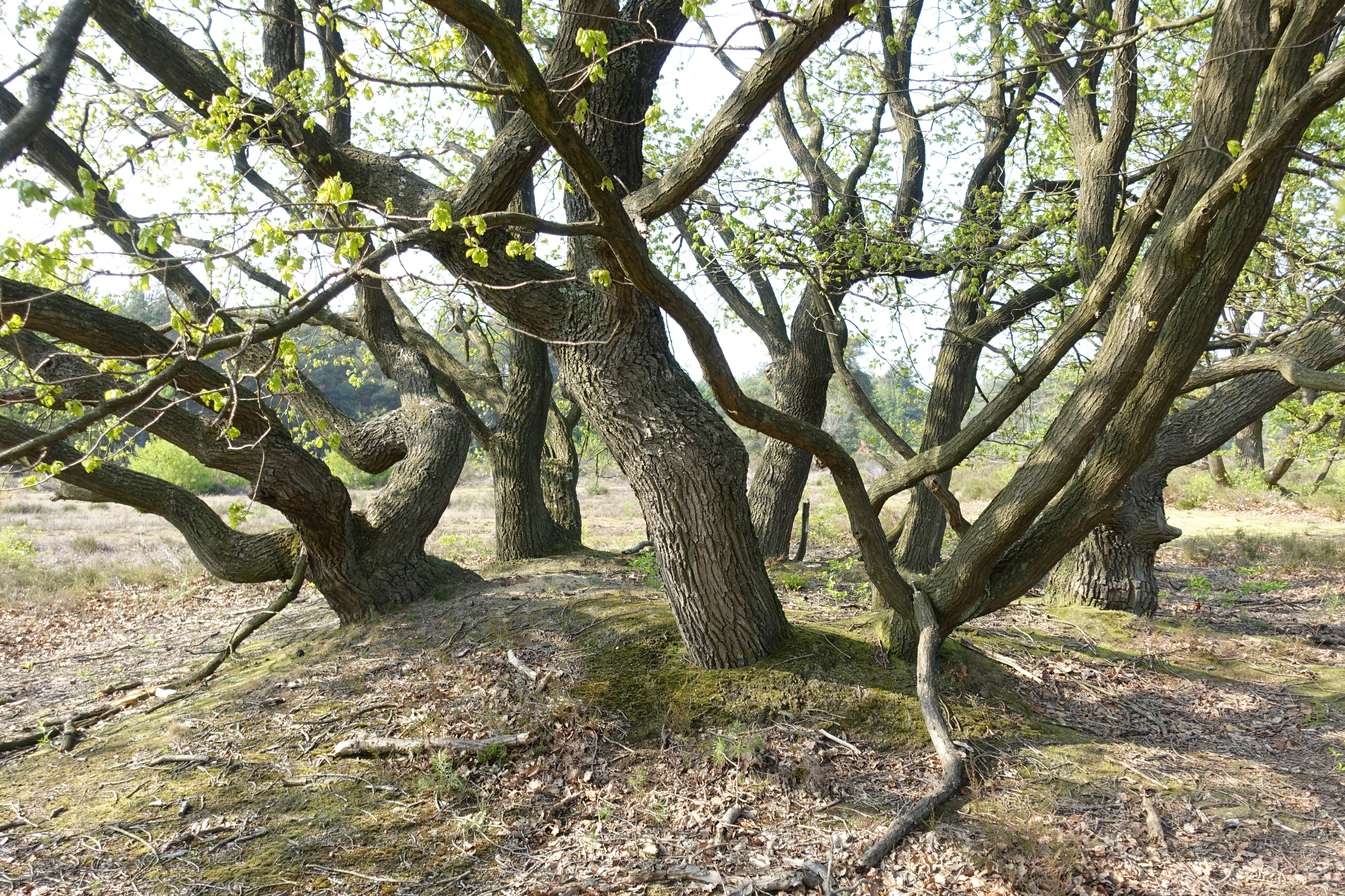 Old overstood coppice stools of sessile oak (Quercus Petraea) in an area with several centuries old overgrown coppies on Klaverberg in Genk (Belgium)